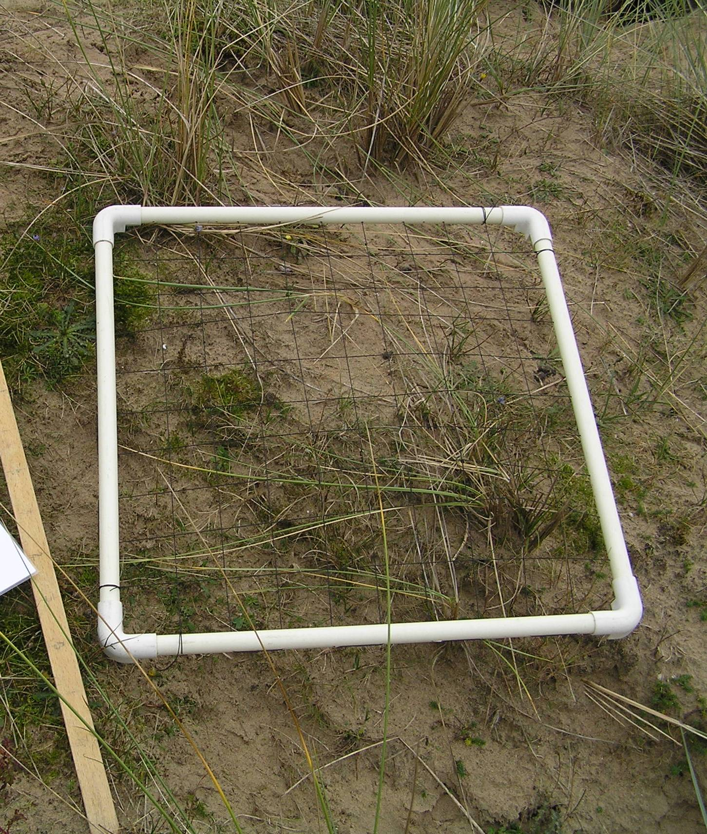 A quadrat sample device, used to measure the percentage cover of certain grasses.